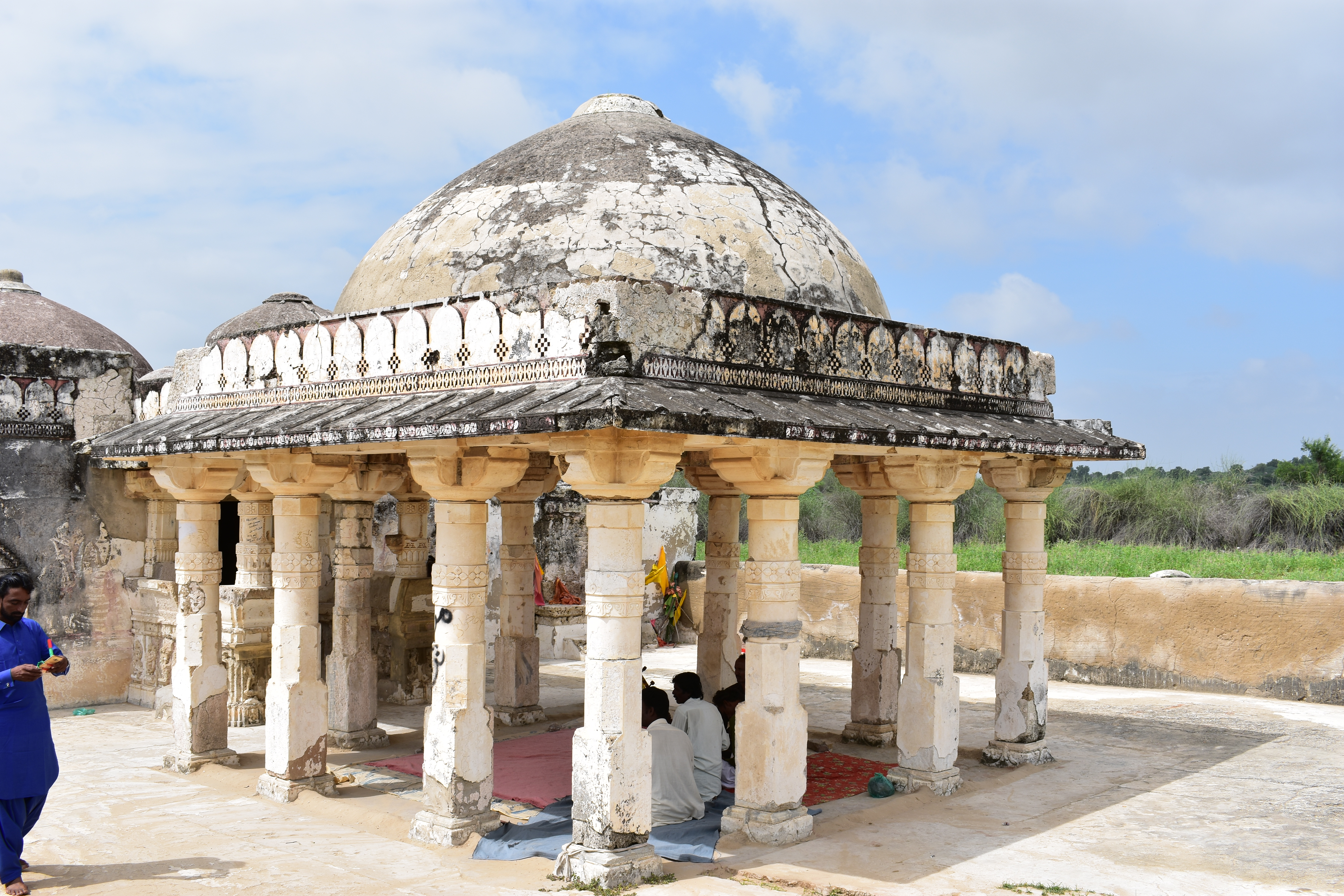 Gori Temple This is a photo of a monument in Pakistan identified as the SD-68